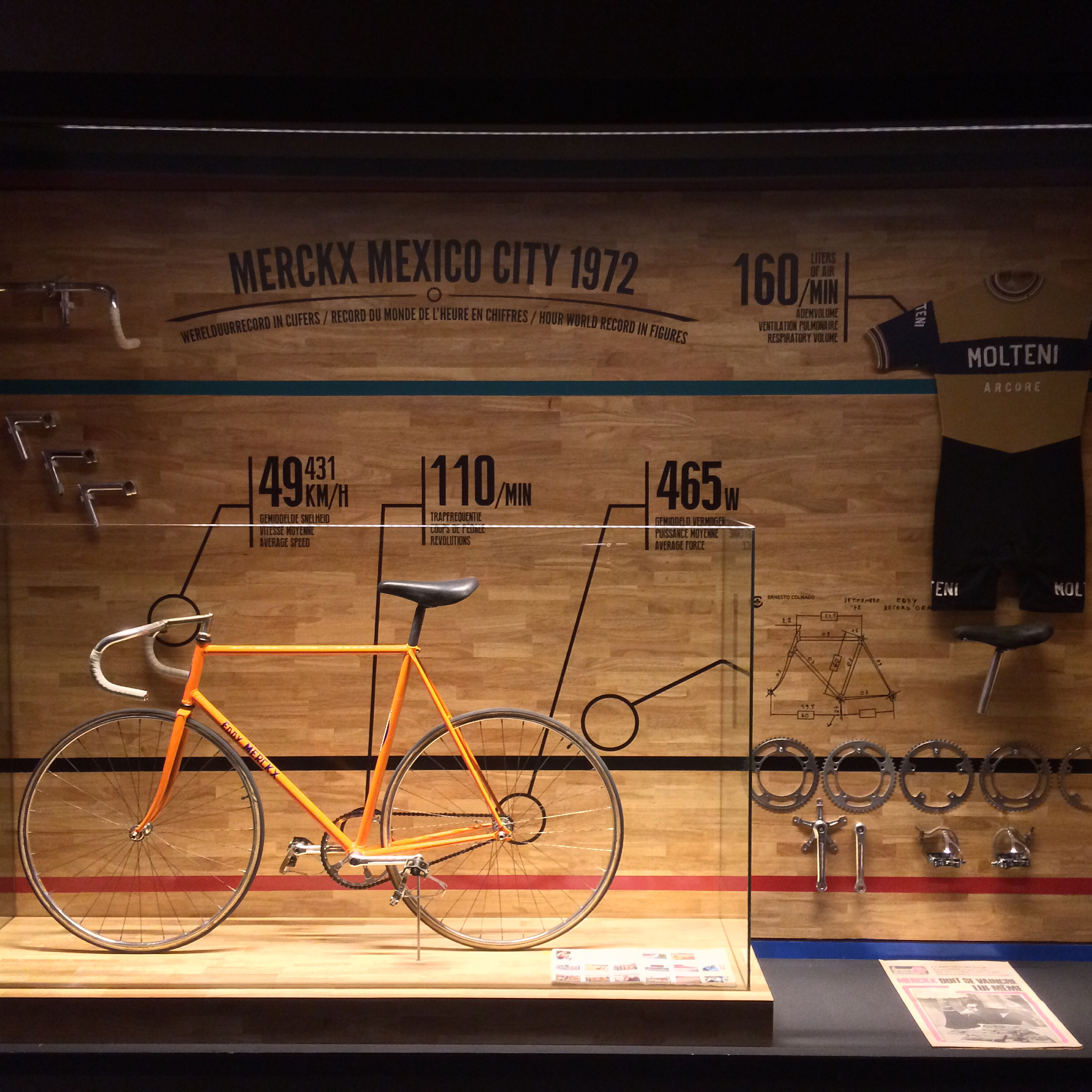 Bikes used by Eddy Merckx for the Hour Record in Mexico City 1972.